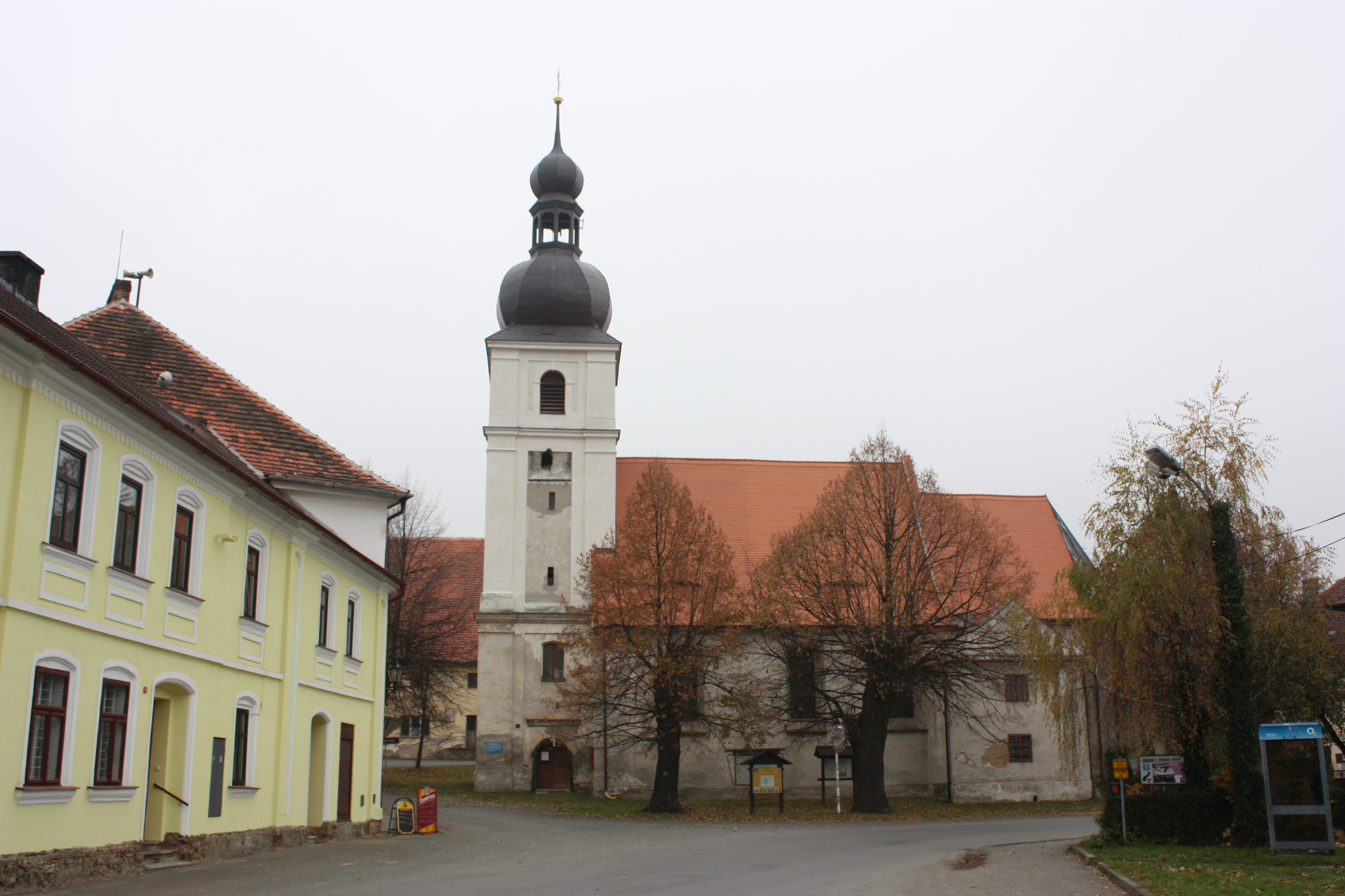 Church in Chudenice, West Bohemia, Czechia